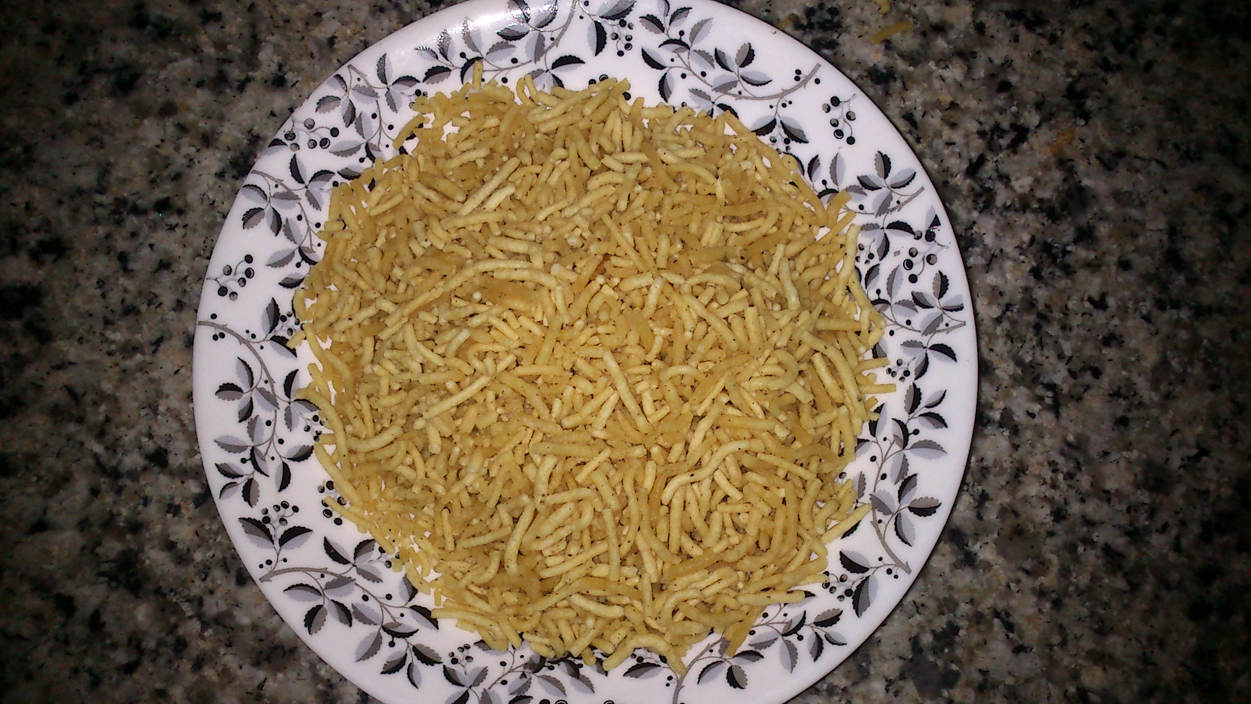 type of namkeen